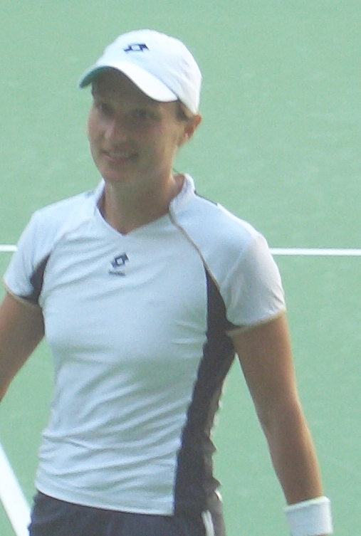 Tathiana Garbin during one of her matches at the 2006 Australian Open.